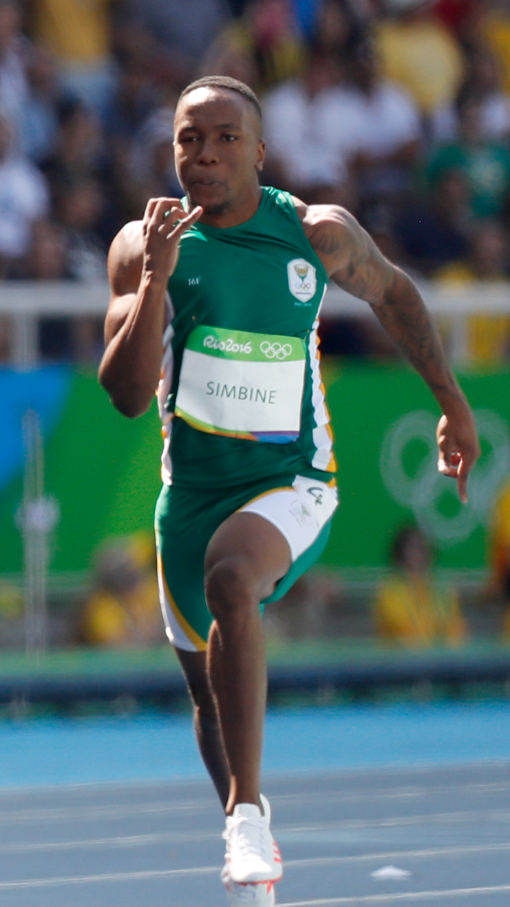 Men's 100 m sprint heats, Rio Olympics